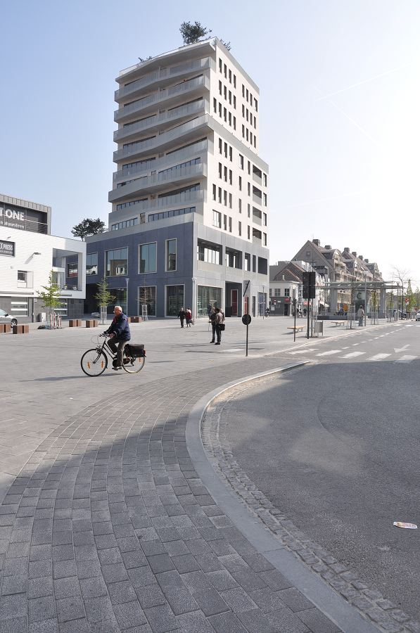 Sint-Janstower in Kortrijk.